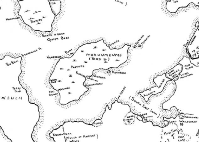 This map of Moku’ume’ume was compiled from maps dated 1873‐1915